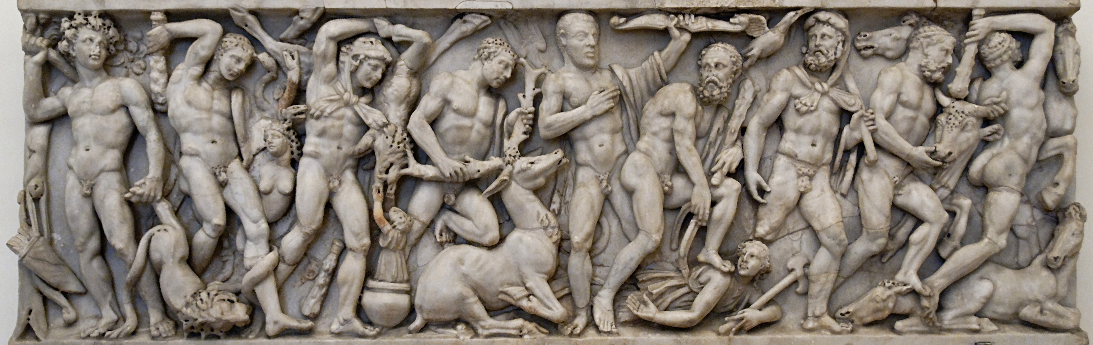 Front panel from a sarcophagus with the Labours of Heracles: from left to right, the Nemean Lion, the Lernaean Hydra, the Erymanthian Boar, the Ceryneian Hind, the Stymphalian birds, the Girdle of Hippolyta, the Augean stables, the Cretan Bull and the Mares of Diomedes. Luni marble, Roman artwork from the middle 3rd century CE.